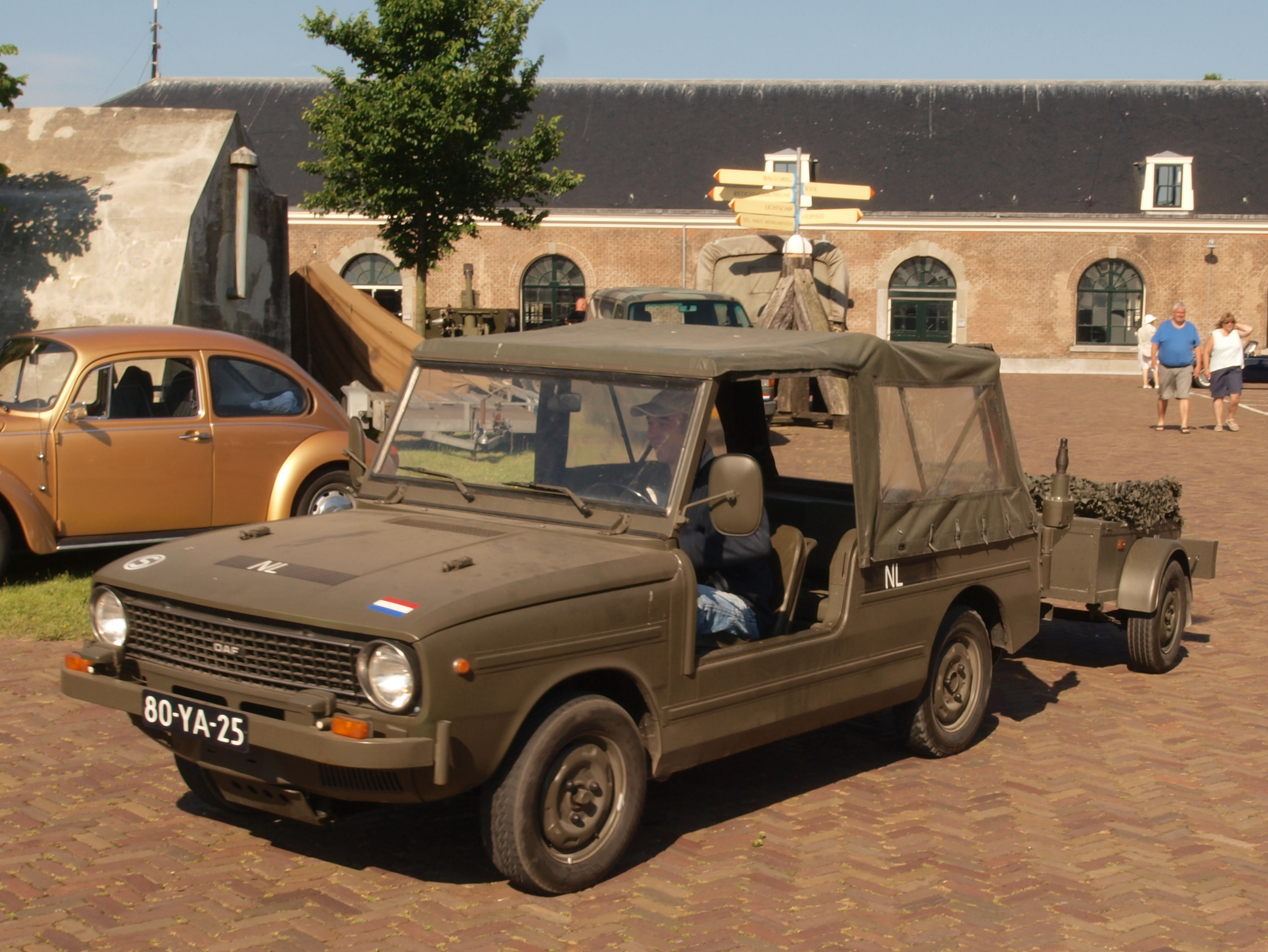 Photographed at Den Helder, The Netherlands. OLYMPUS DIGITAL CAMERA